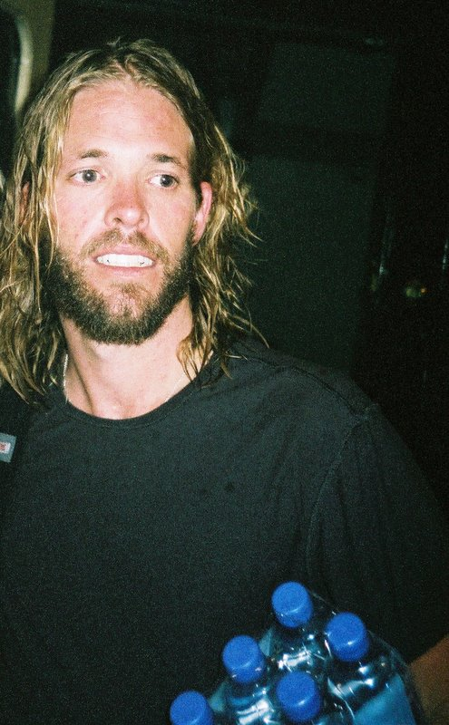 Taylor Hawkins, outside Dingwalls on July 5th 2007